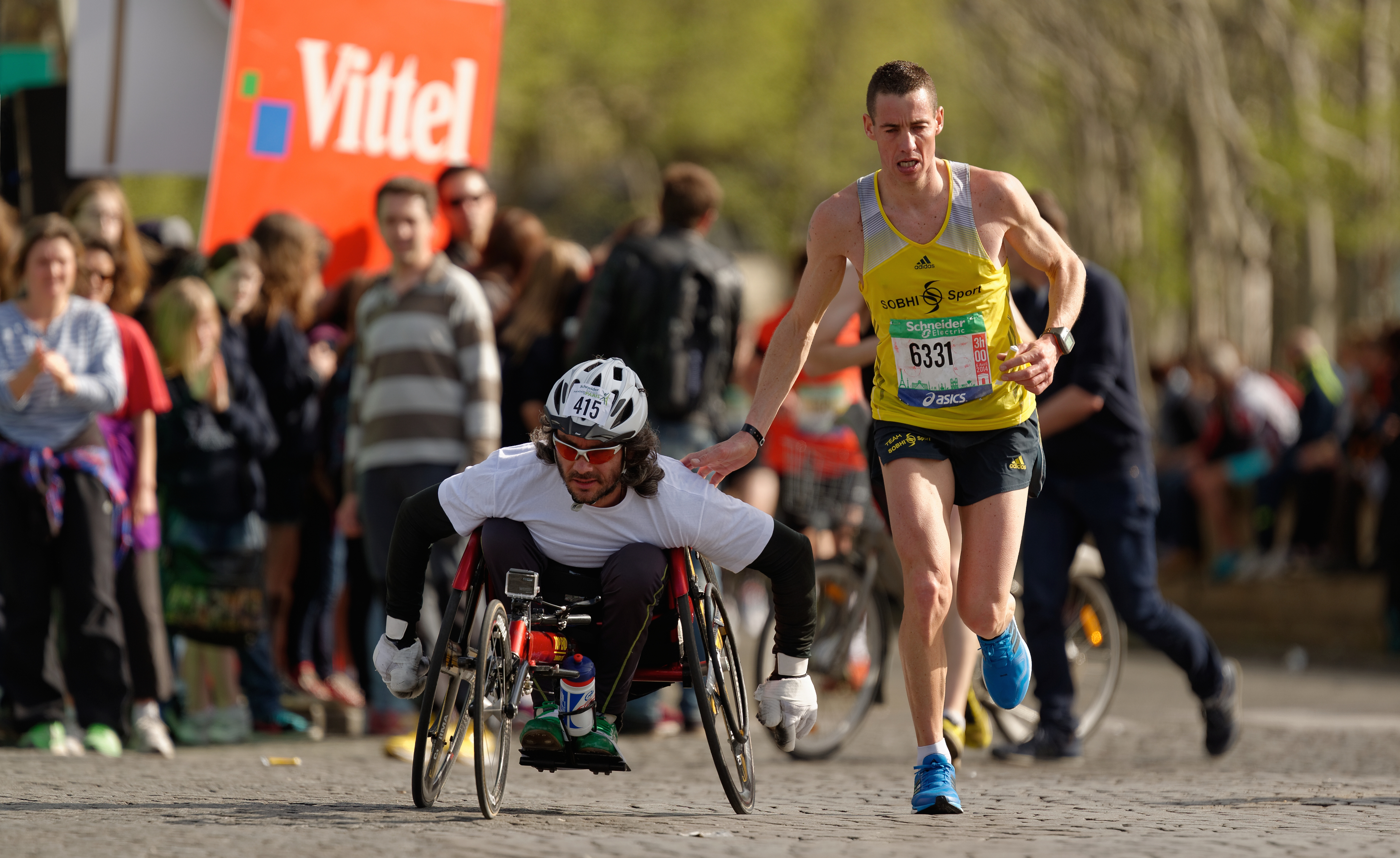 A runner gives a friendly tap on the shoulder of wheelchair racer David Bizet as he approaches the Trocadéro refreshment tables in the 2014 Paris Marathon.